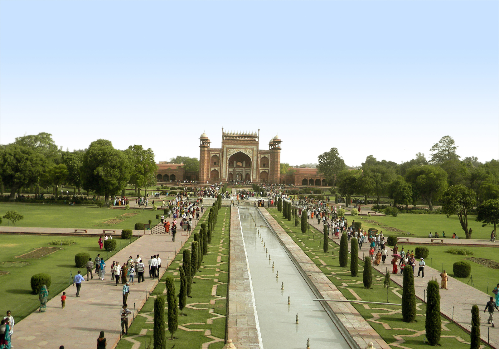 ଓଡ଼ିଆ: Taj Mahal This media file is uploaded with Odia loves Wikipedia